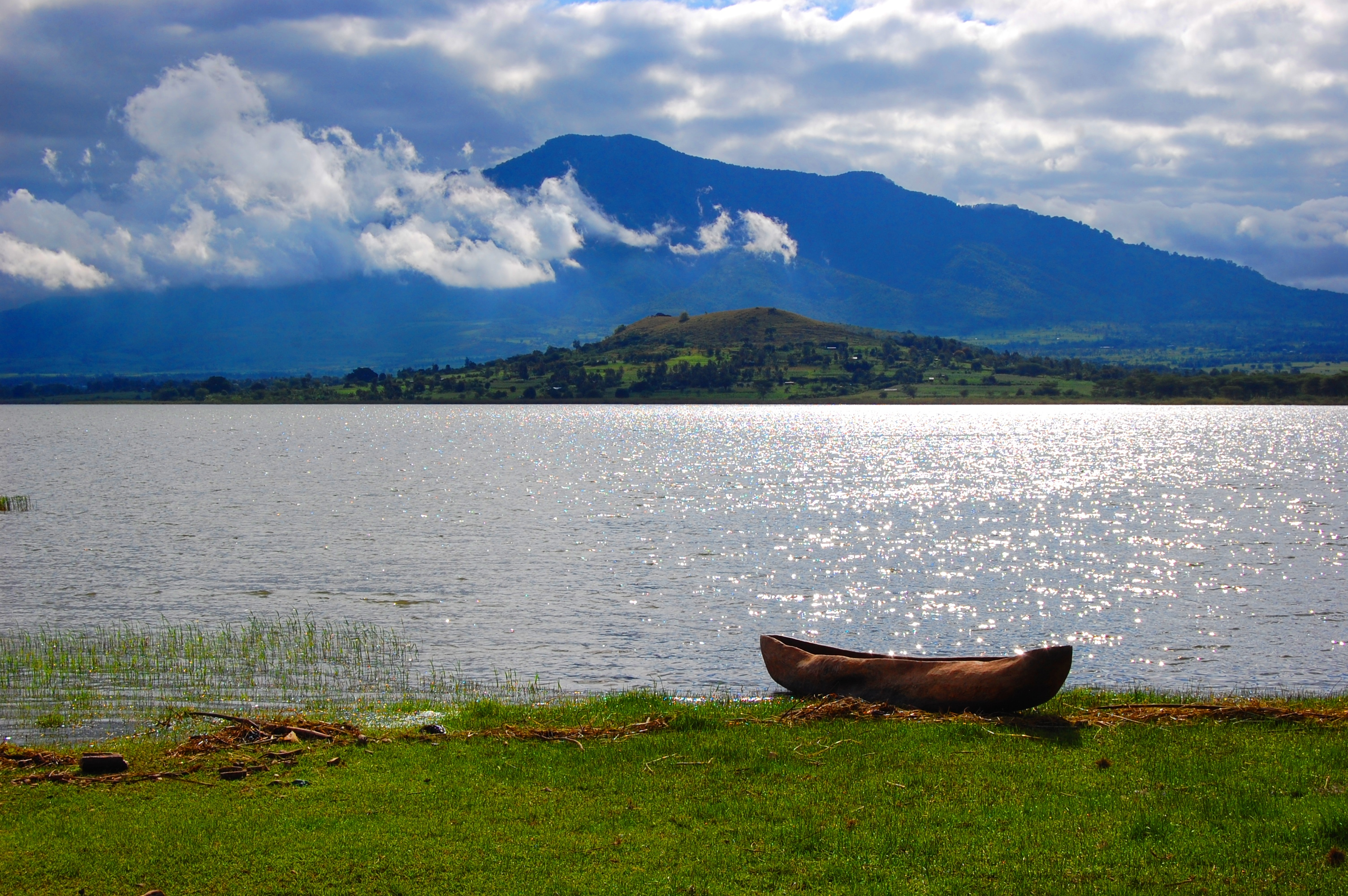 Morning sun over Lake Babati, Manyara Region, Tanzania